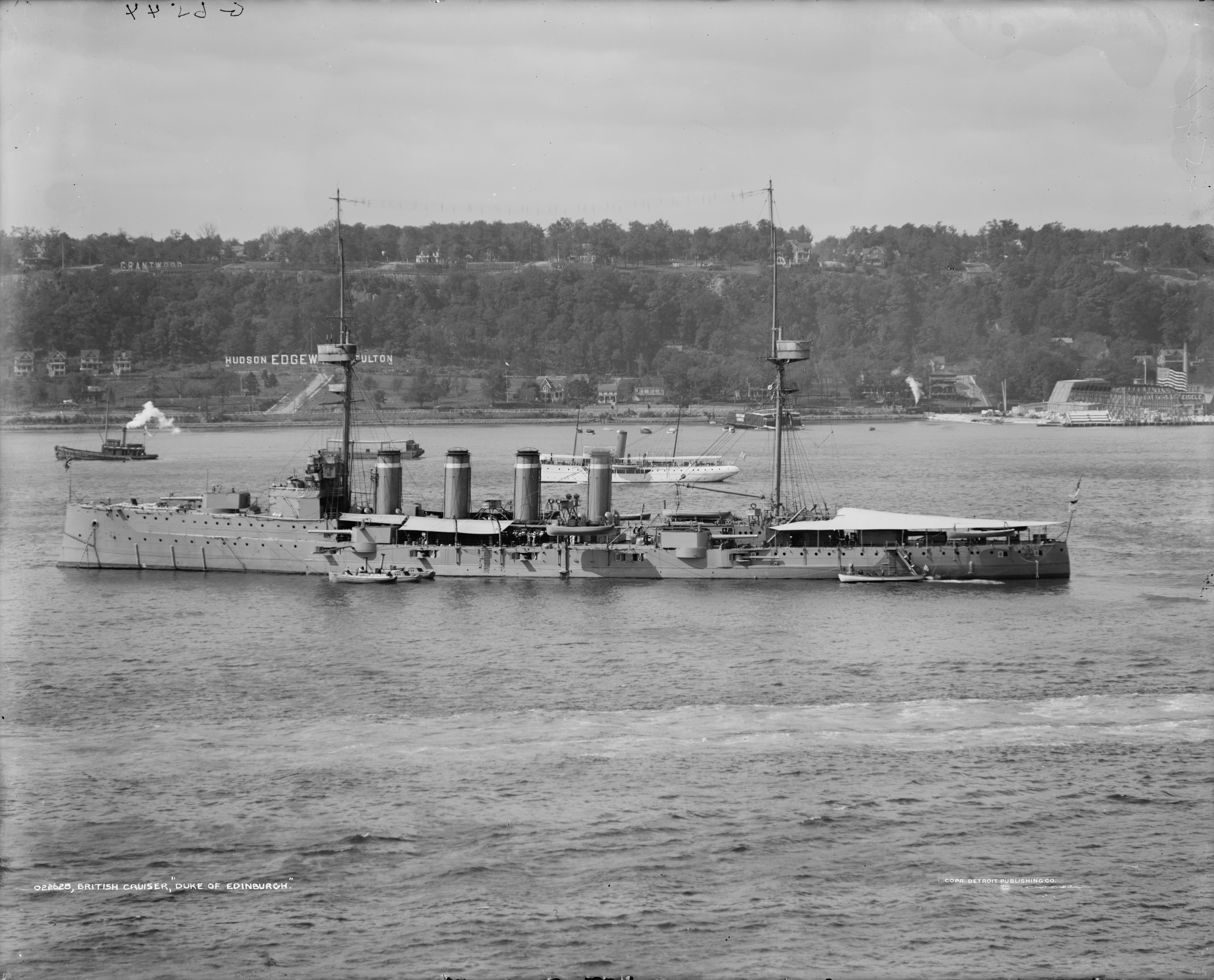 The British first class armoured cruiser HMS Duke of Edinburgh in the United States in 1909.